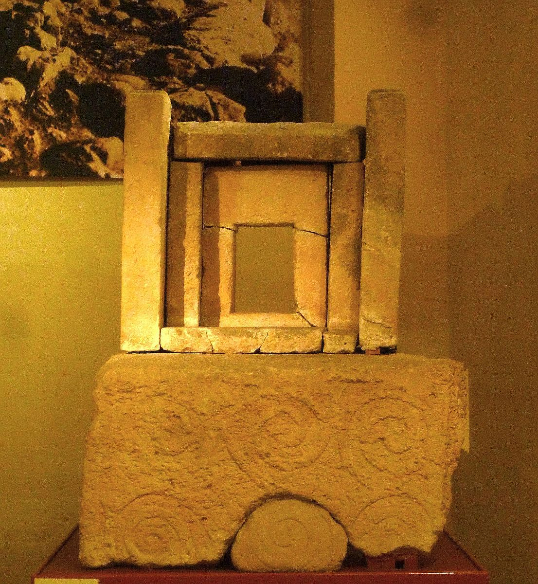 Altar from the Megalithic Tarxien temple in the Museum of Archaeology, Valletta, Malta